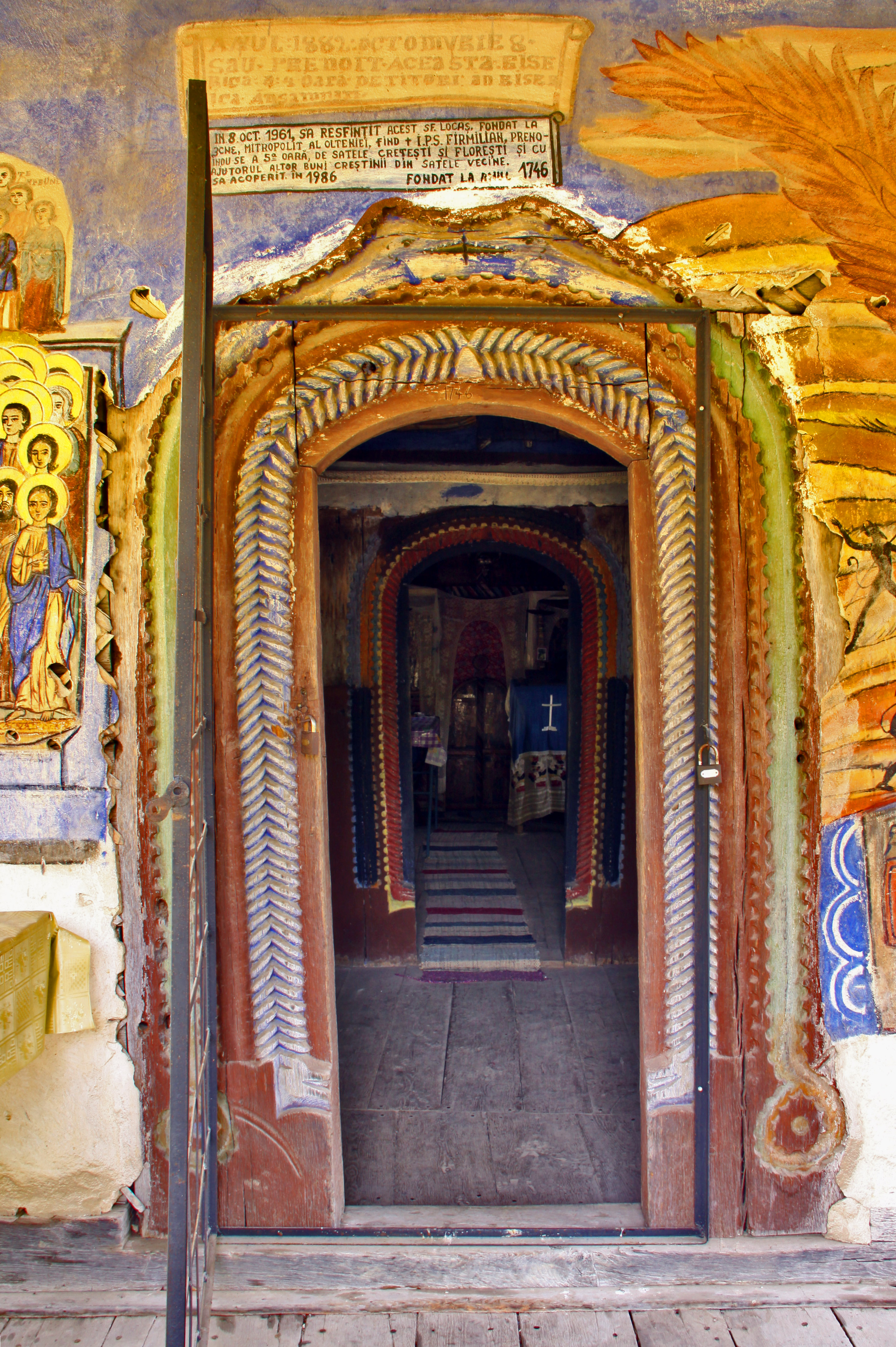 Floreşteni, Târgu Cărbuneşti, Gorj county: the wooden church, the entrance.